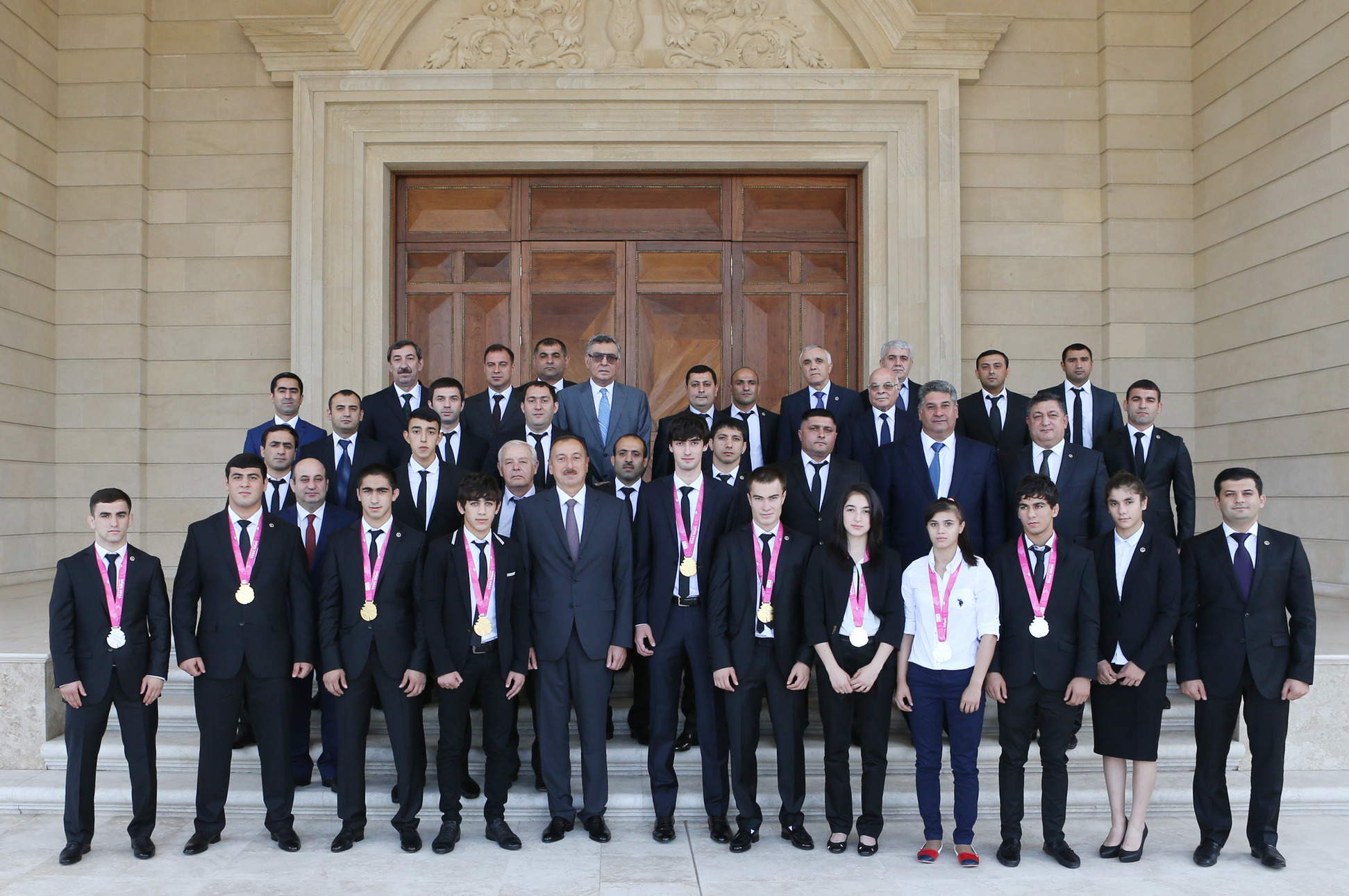 Ilham Aliyev received members of the national team who participated in the 2nd Summer Youth Olympic Games in Nanjing